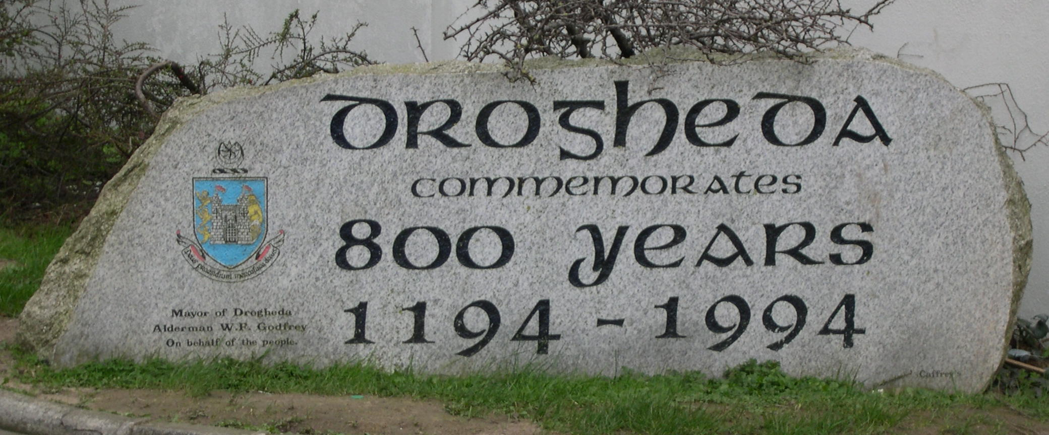 Commemoration of Drogheda's official charter Credit: A Peter Clarke image